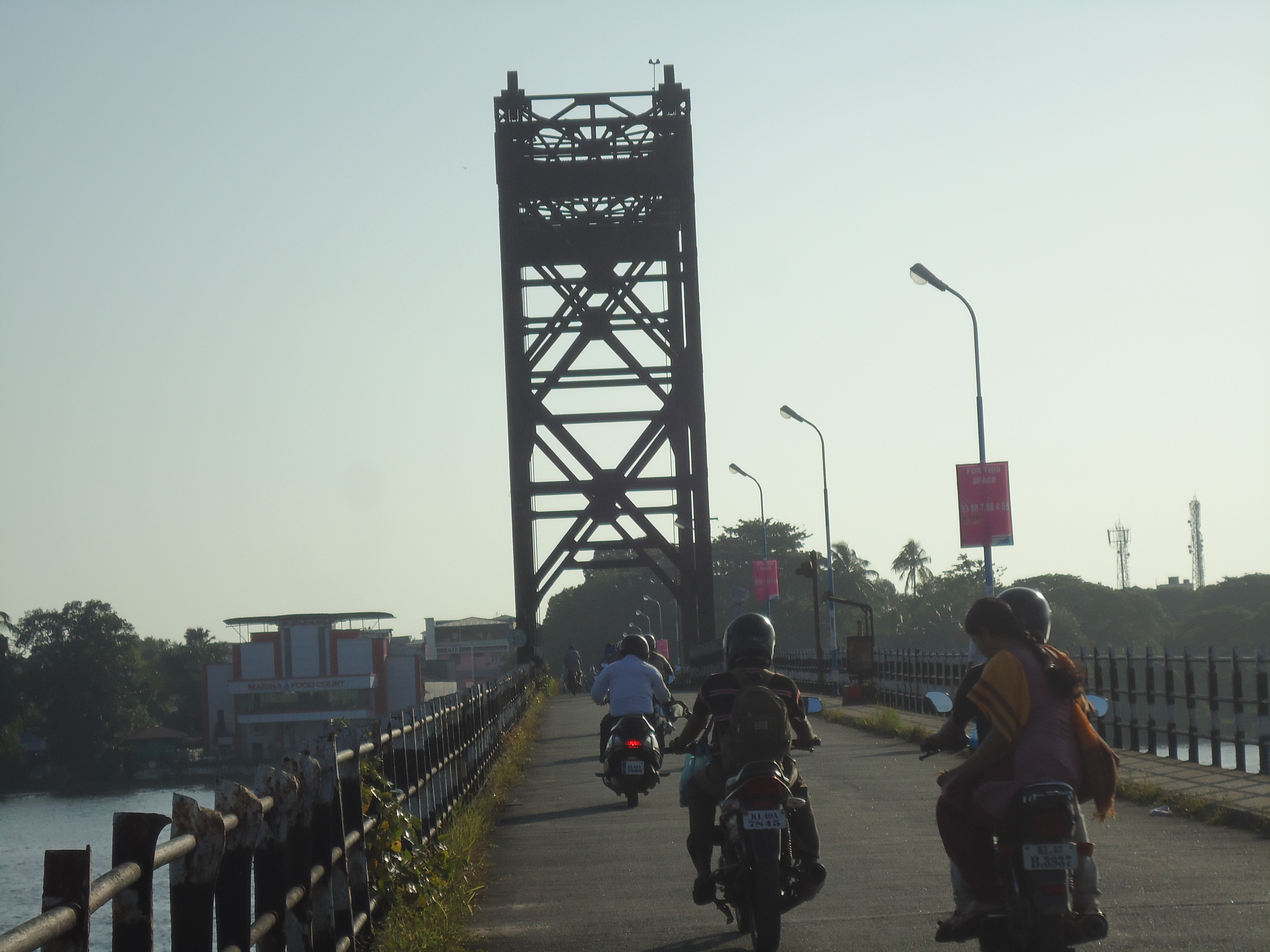 Old mattancherry bridge at vembanadu kayal